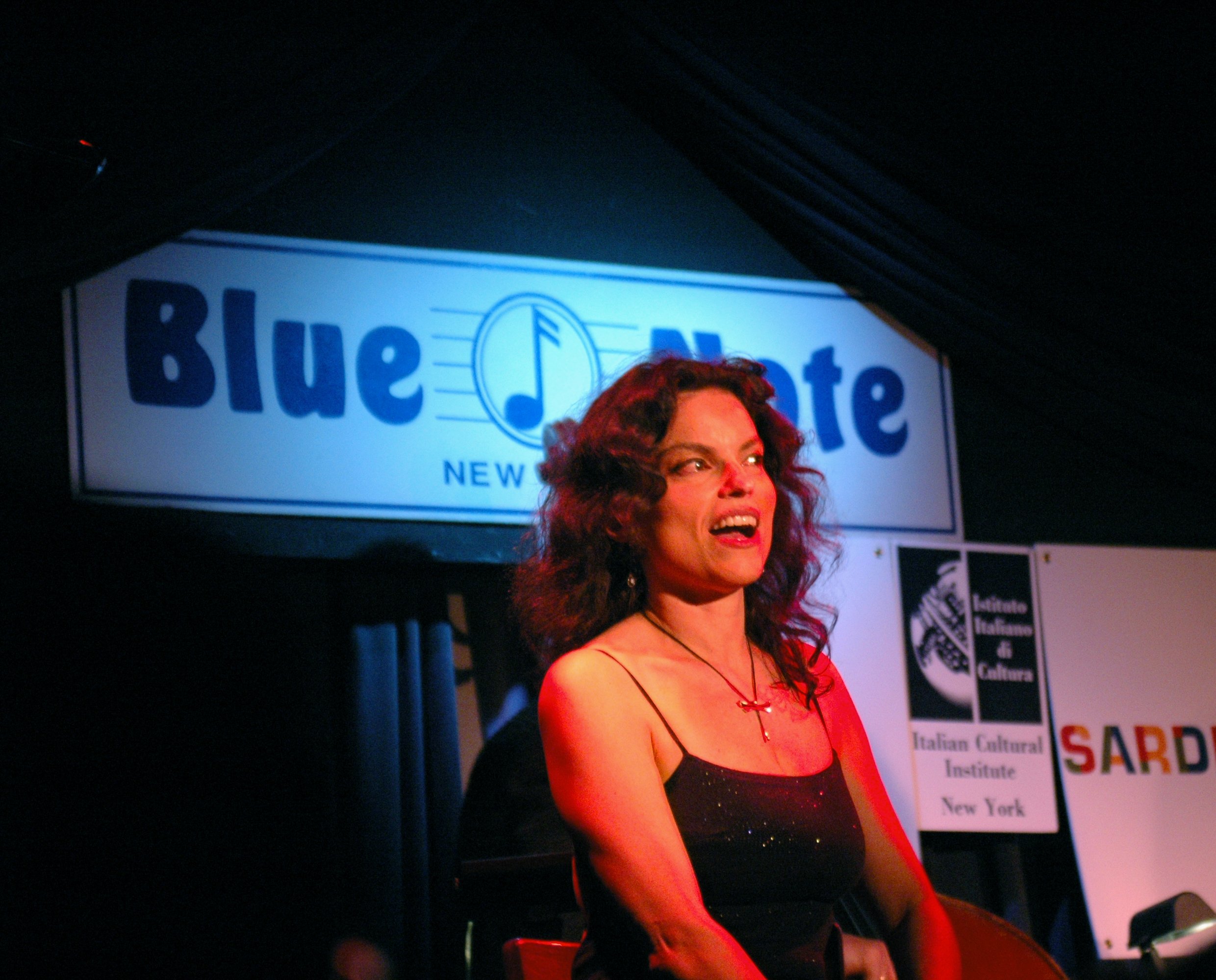 Roberta Gambarini in New York, February 2, 2008